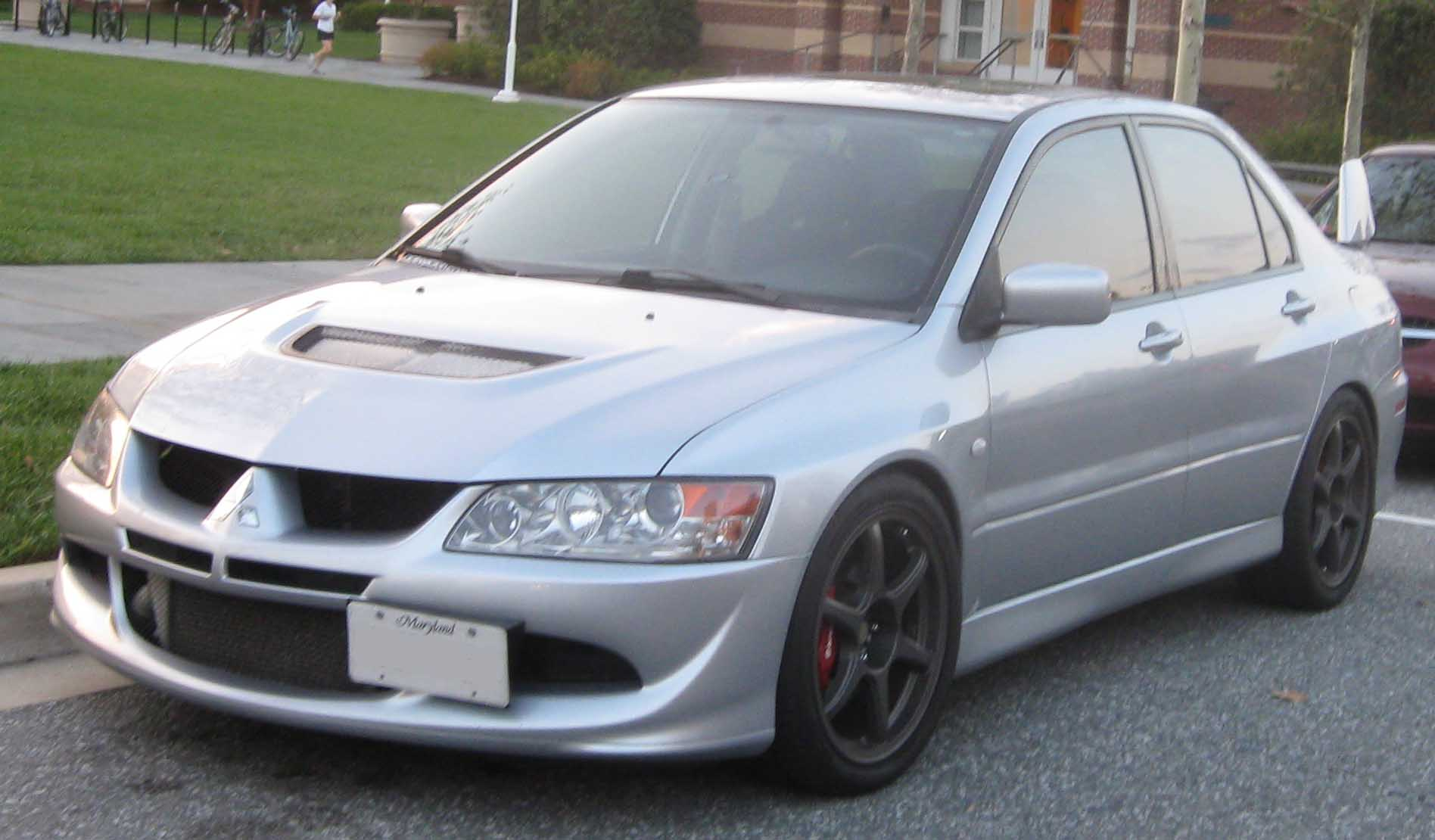 Mitsubishi Lancer Evolution VIII photographed in College Park, Maryland, USA.